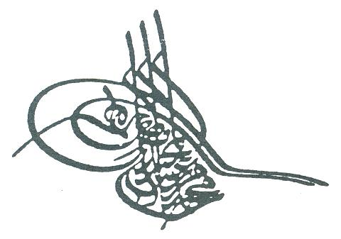 Tughra (i.e., seal or signature) of Murad V, Sultan of the Ottoman Empire for a few months in 1876. An explanation of the different elements composing the tughra can be found here.